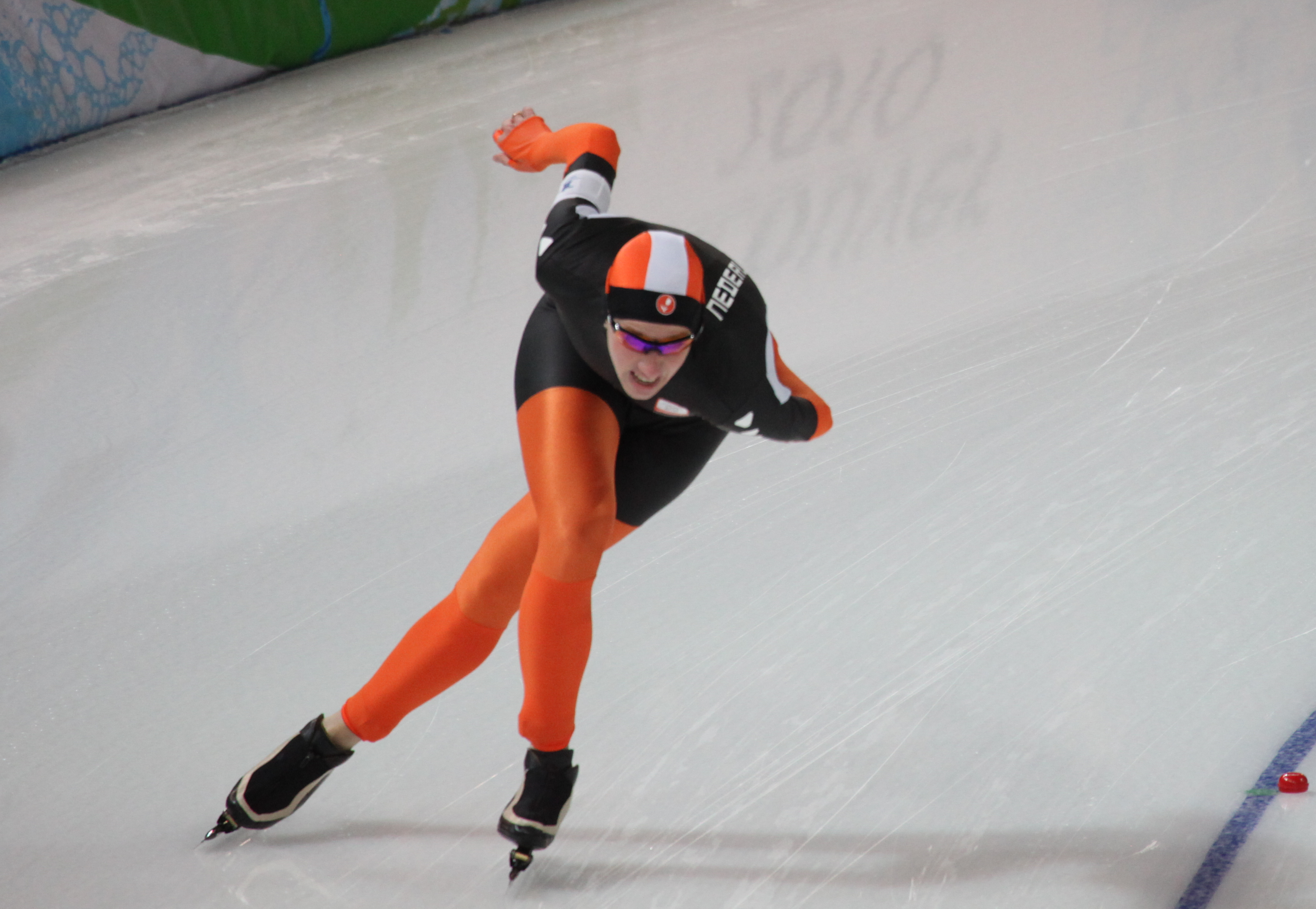 Women's 5000 meter finals at Vancouver 2010 Olympics